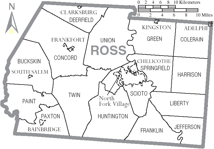 Map of Ross County, Ohio, United States with township and municipal boundaries